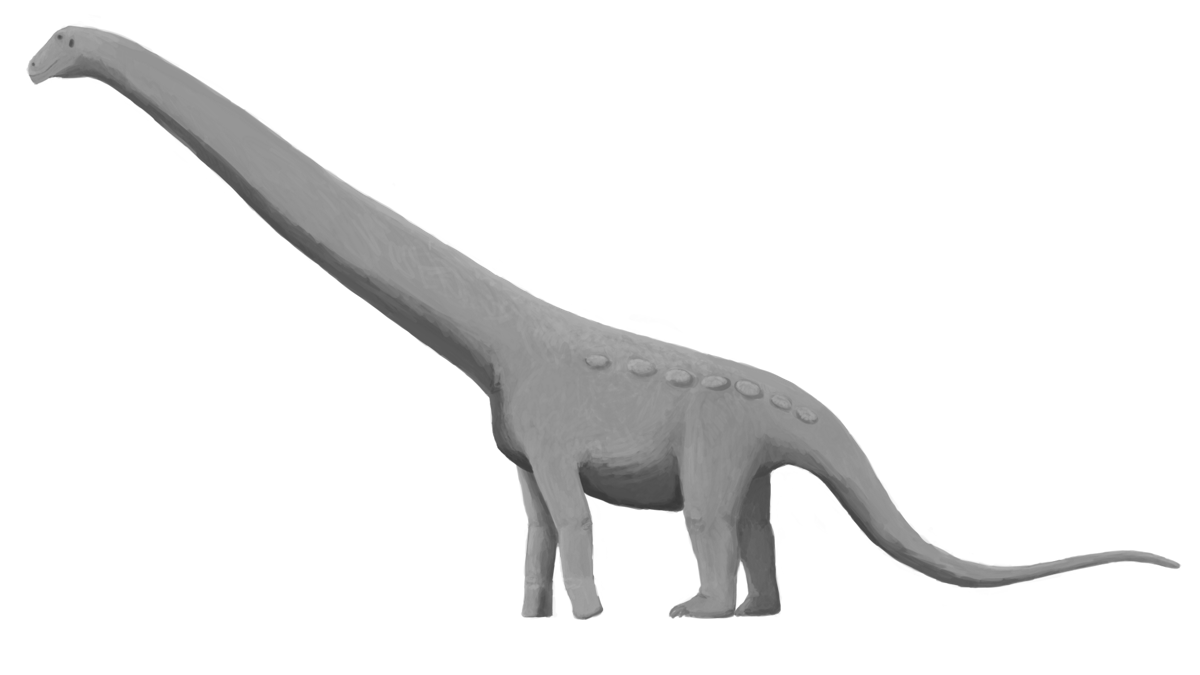 A life reconstruction of the titanosaur Aeolosaurus rionegrinus in lateral view. The neck and head reconstructed based on its relative Rapetosaurus; the curvature of the tail is based on da Silva Vidal et al. 2020 (